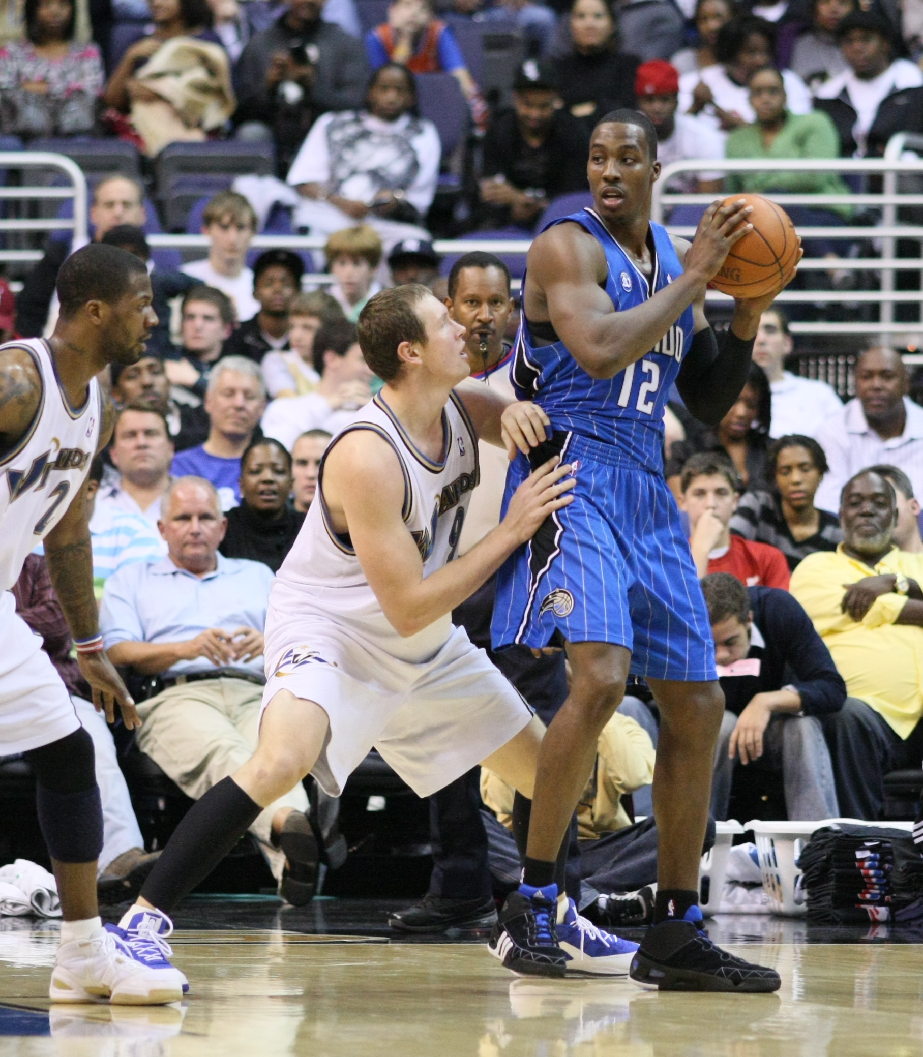 Dwight Howard in action at the Orlando Magic v/s Washington Wizards Game on 11/27/08